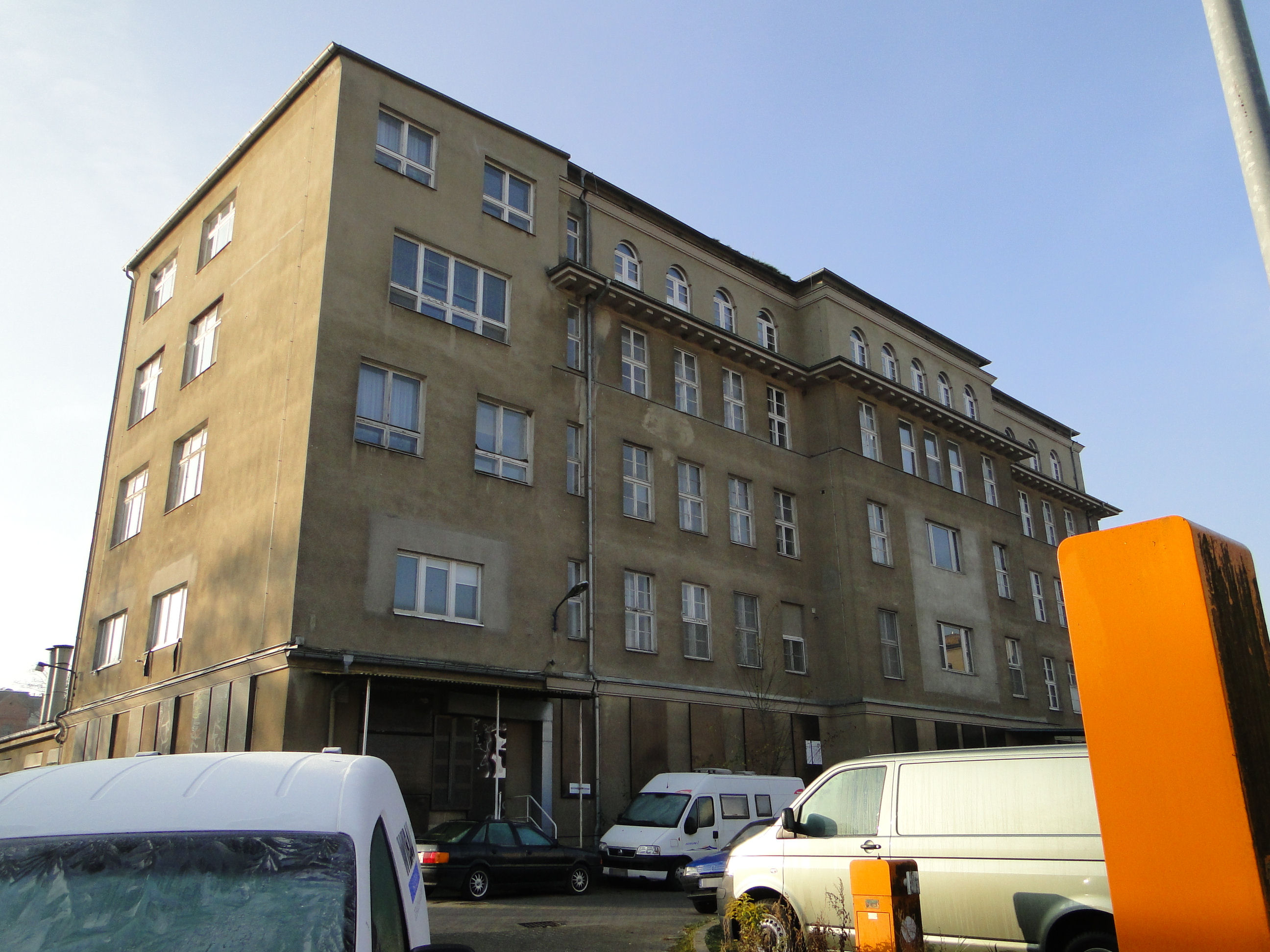 Former district hospital in the street Werderstraße in Schwerin, Mecklenburg-Vorpommern, Germany